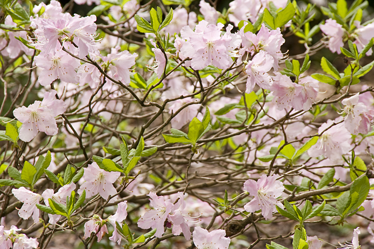 Rhododendron schlippenbachii, a deciduous azalea native to Korea, Manchuria and nearby parts of Russia. It grows to around 1.2m tall, with a rather spreading habit and its flowers open with the young spring leaves. It often produces vivid autumn foliage colour.